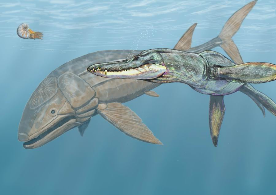 Leedsichthys problematicus & Pliosaurus rossicus – reconstruction by author